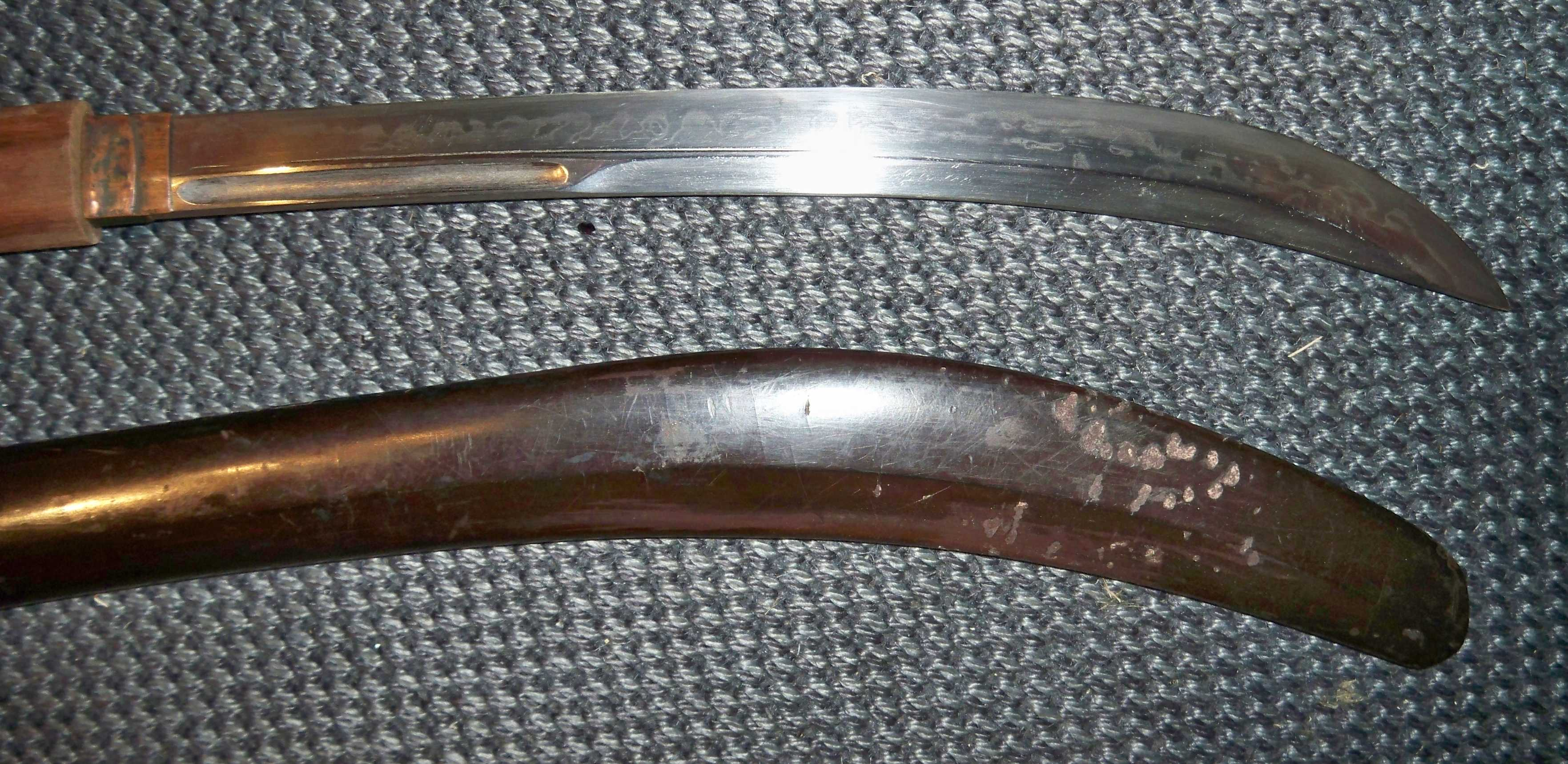 Antique Japanese (samurai) naginata blade.